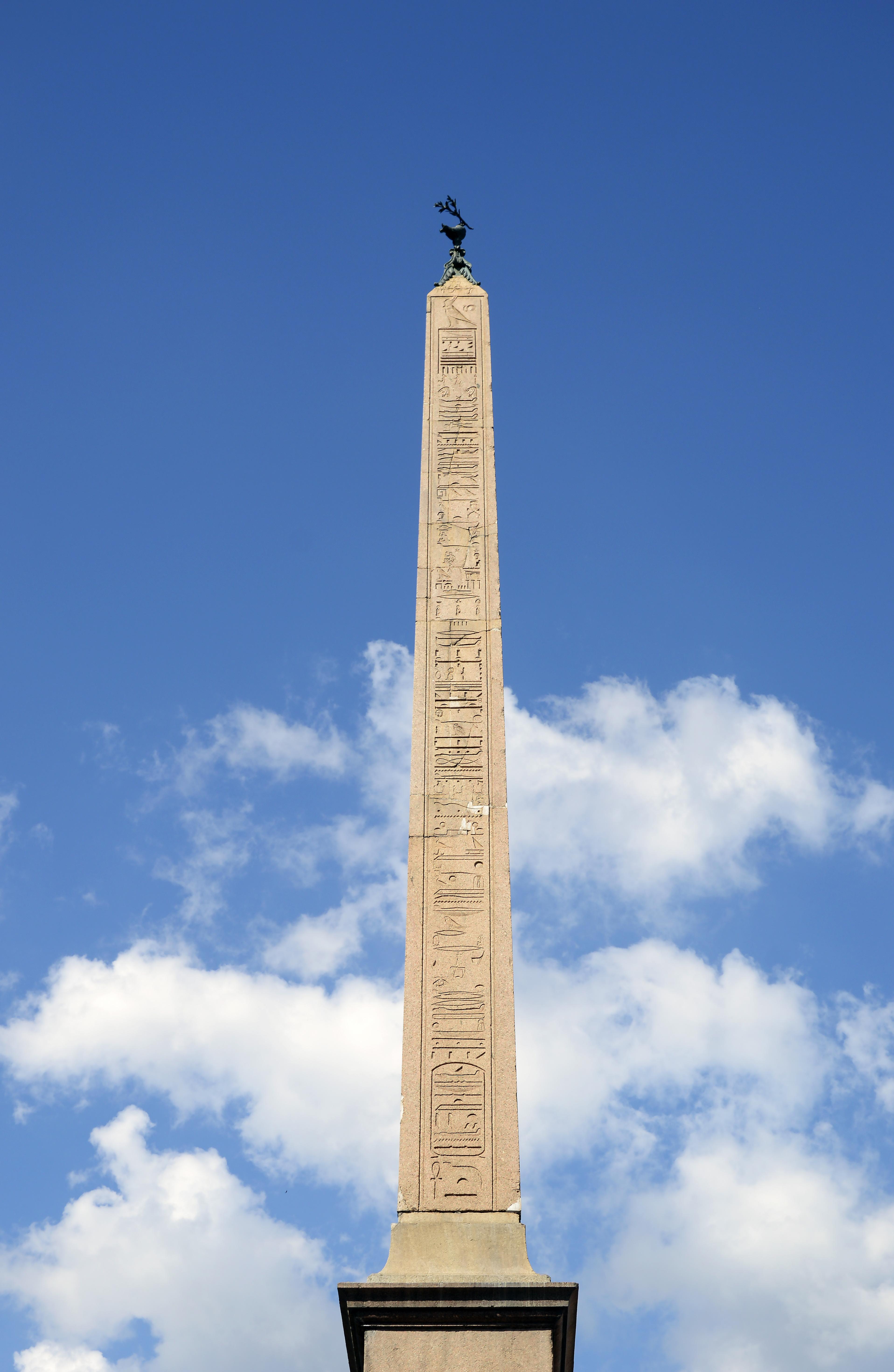 Obelisk in piazza Navona